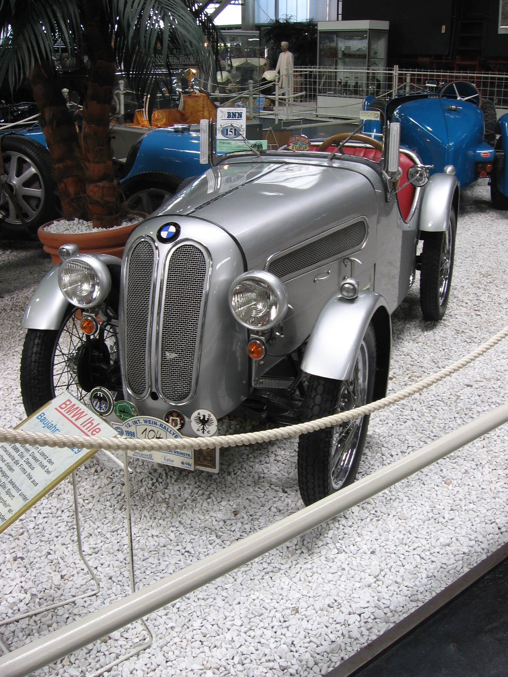 The BMW Dixi in a special "Sport"-version from 1929, manufactured by the "Ihle"-company from Bruchsal / Germany at the Auto- und Technikmuseum Sinsheim / Germany. The picture was taken in may 2006 by Christian Kath (me).